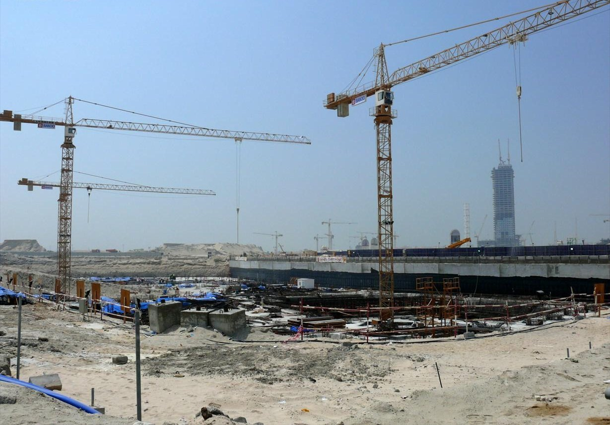 This is a photo showing the construction of the Ubora Towers, located in Business Bay in Dubai, United Arab Emirates, on 20 September 2007.